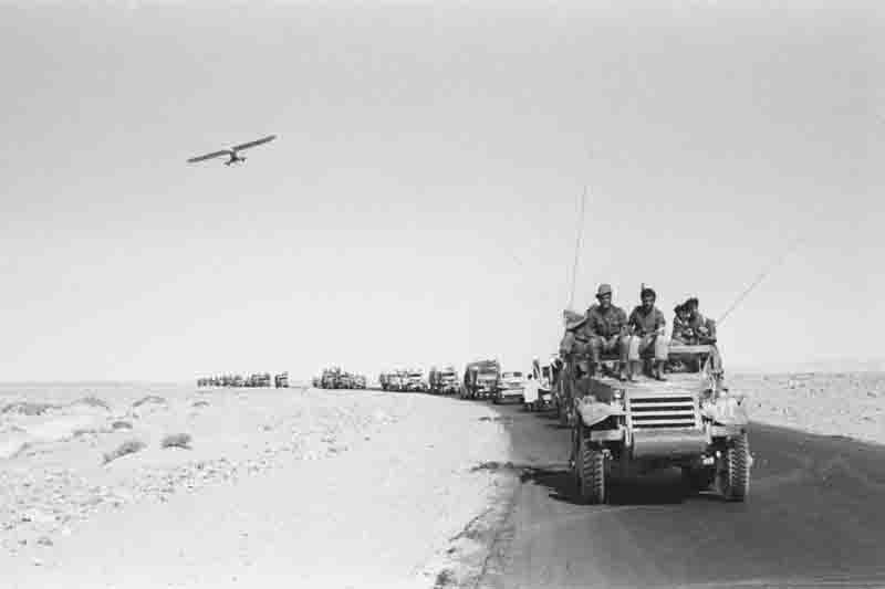 890th Battalion convoy heading to Sharm El Shiekh, accompanies by a Piper PA-18 Super Cub